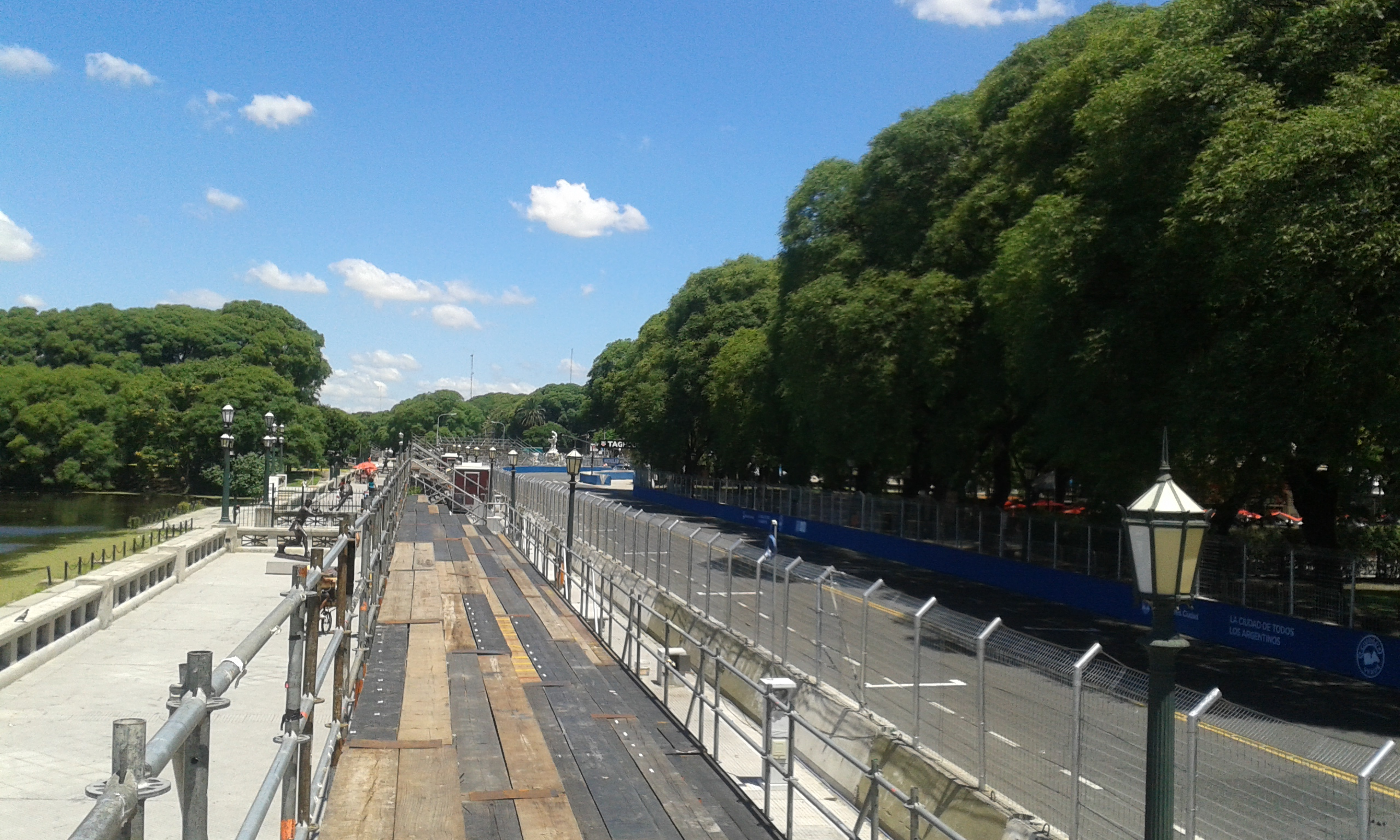 Starting grid.